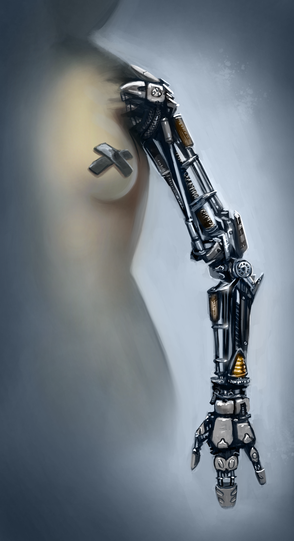 Artwork done by David Revoy for the preproduction of the fourth open movie of the Blender Foundation 'Tears of Steel' ( project Mango ).